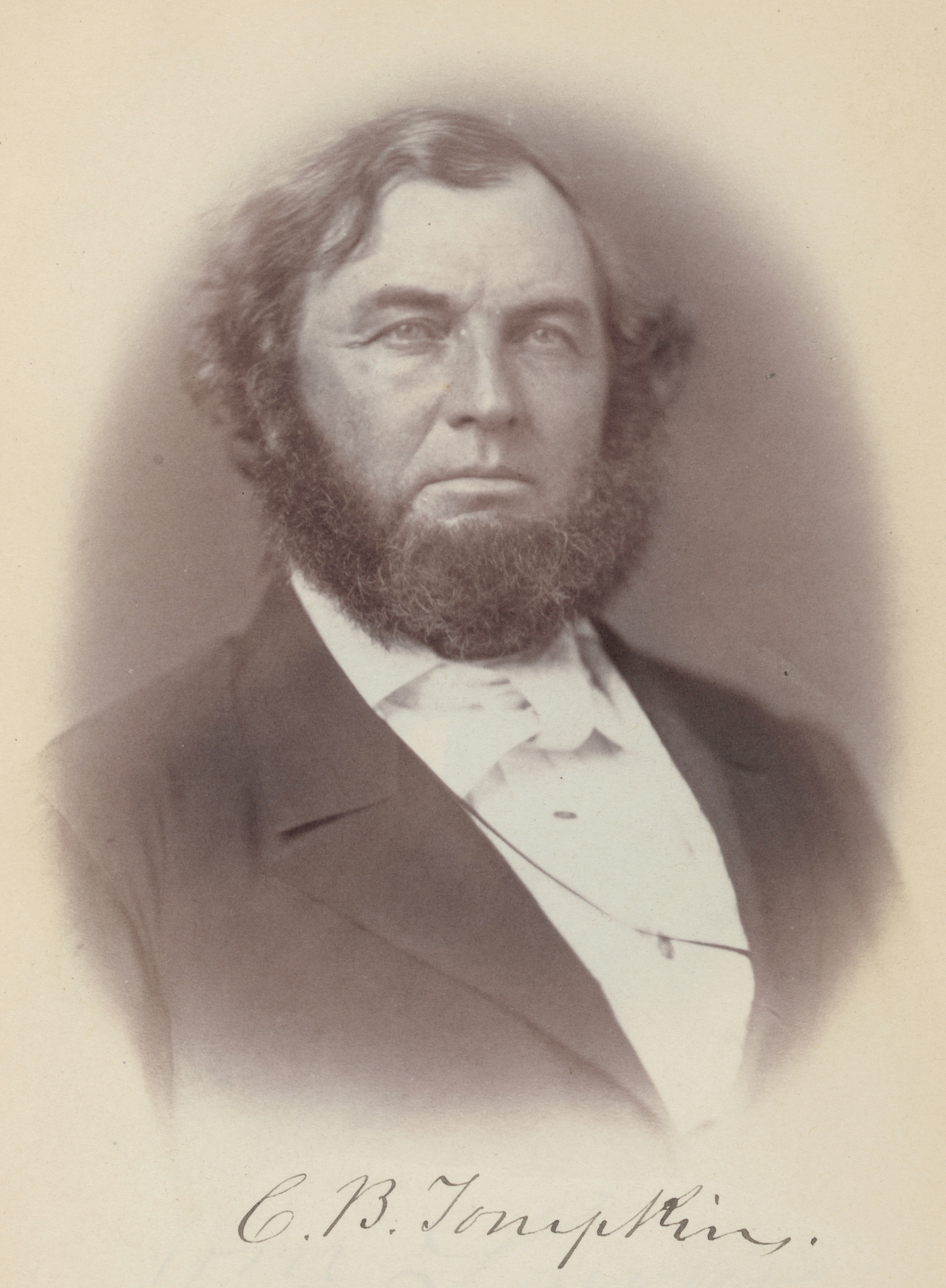 Cydnor B. Tompkins, congressman from McConnelsville, Ohio. From (1859) McClees' gallery of photographic portraits of the senators, representatives & delegates to the thirty-fifth Congress, Washington: McClees and Beck, p. 208 .